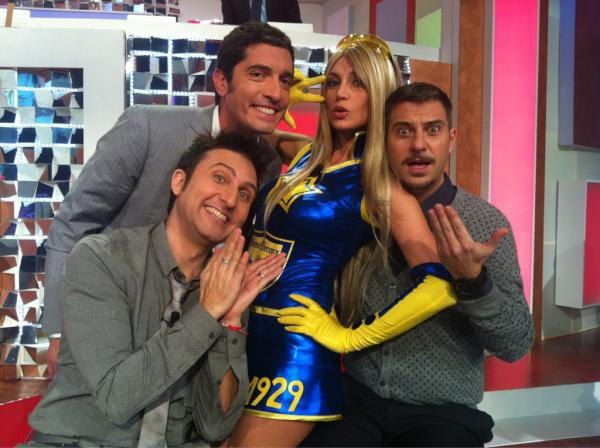 Giorgia Vecchini, alias Giorgia Cosplay, during the italian TV program Quelli che il calcio with the comedians Trio Medusa.